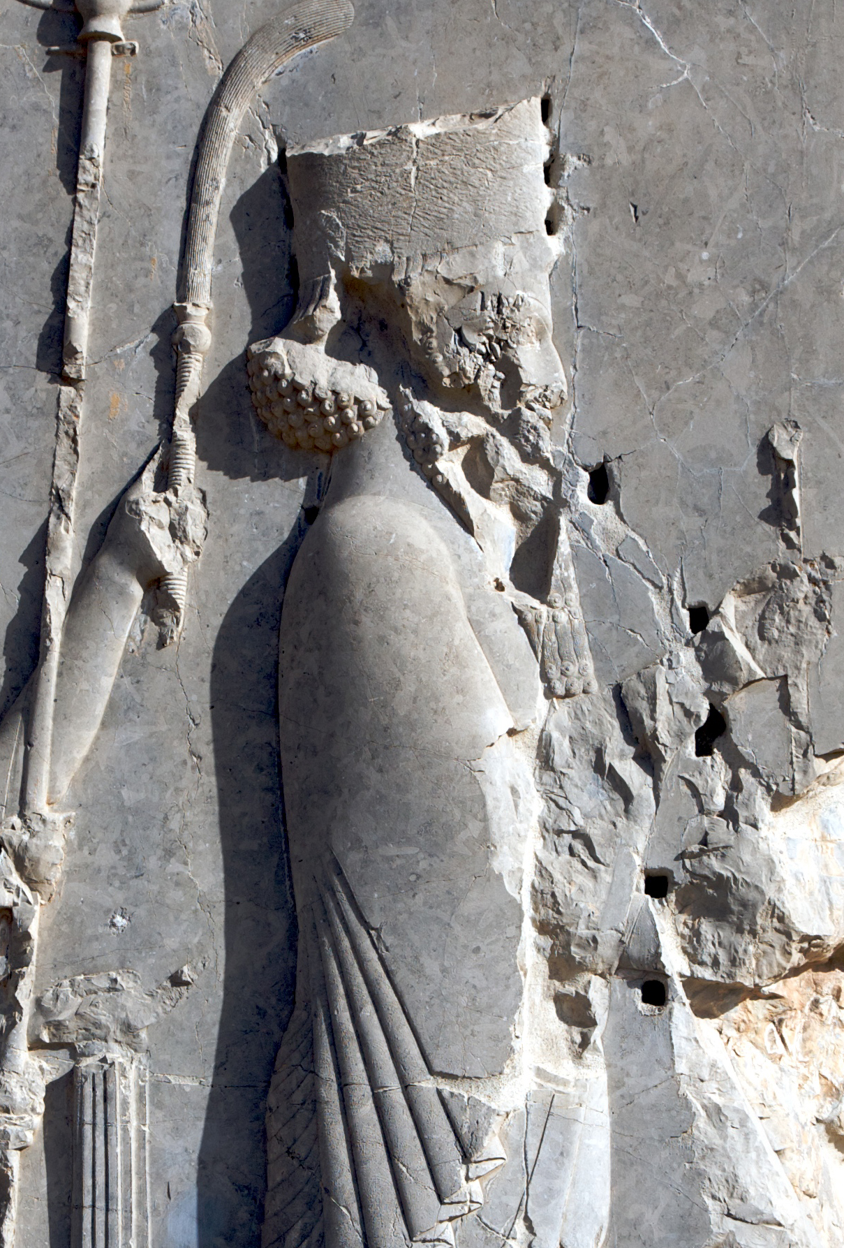 Xerxes I of Persia, from Hadish Palace at Persepolis.